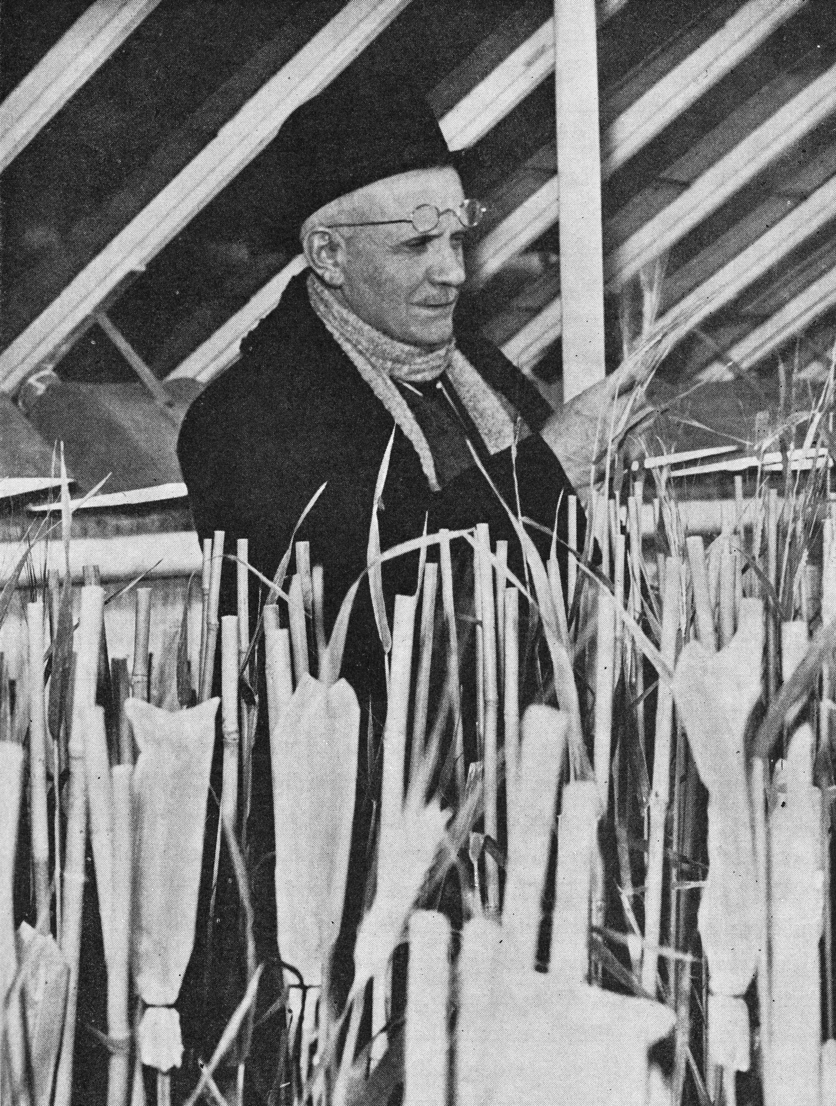 Herman Nilsson-Ehle, professor of genetics at Lund University 1917-38.